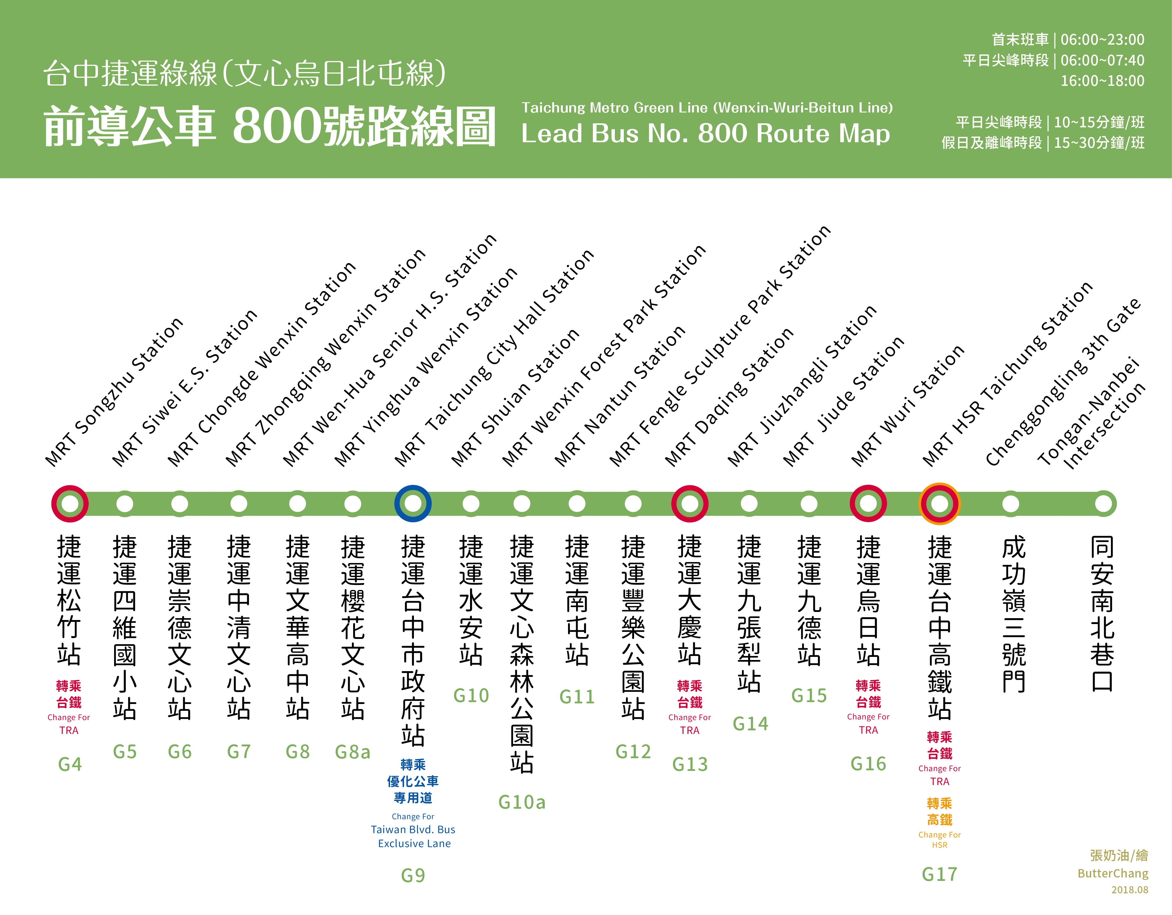 Taichung City Bus No.800 (Taichung Metro Green Line- Wenxin Wuri Beitun Line Lead Bus)